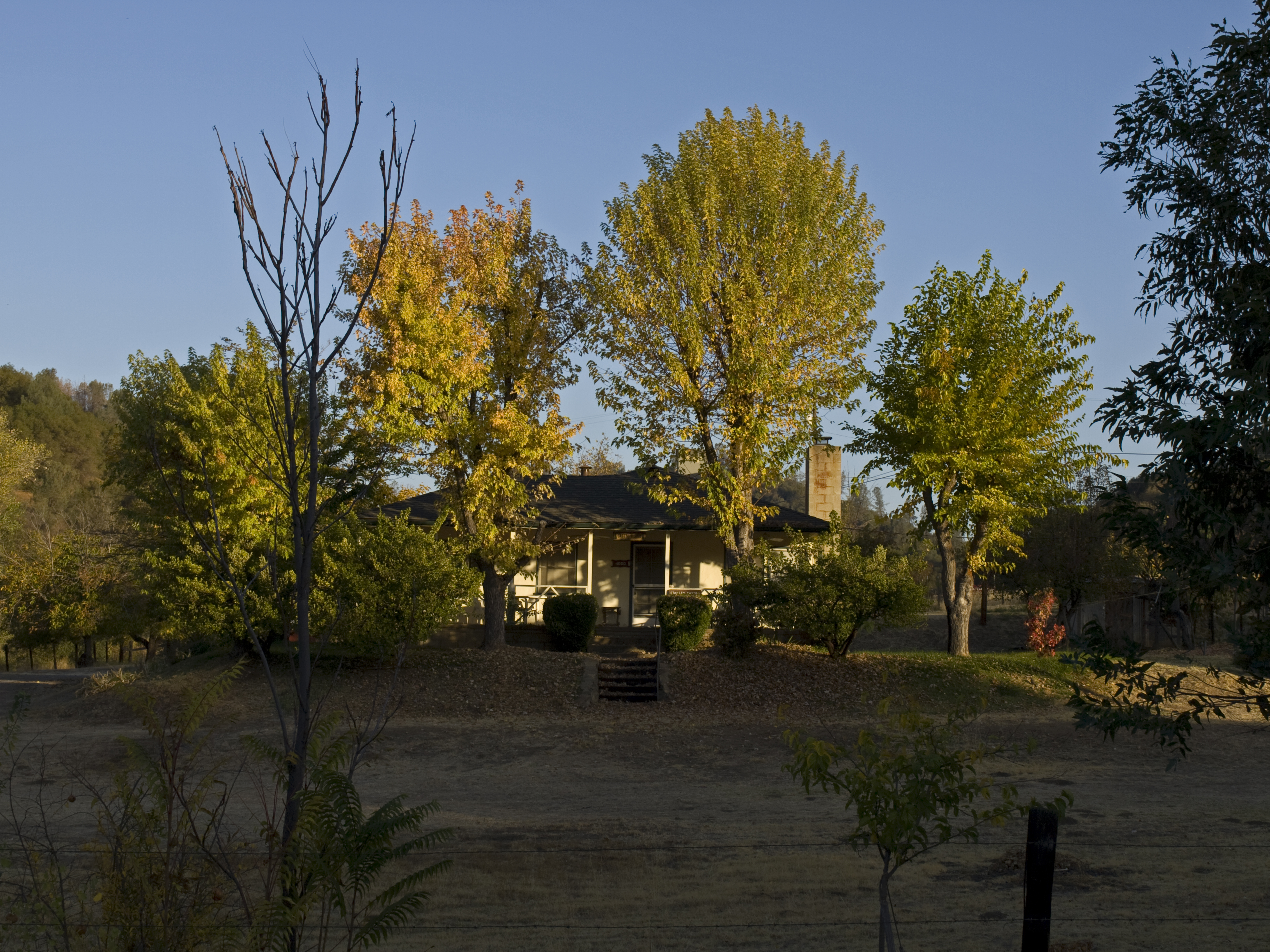 A standalone house at Mormon Bar, south of Mariposa, California (possibly #4659)